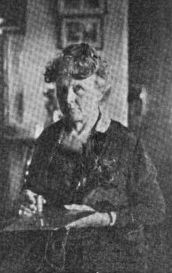 Annie Jump Cannon, from a 1921 publication.